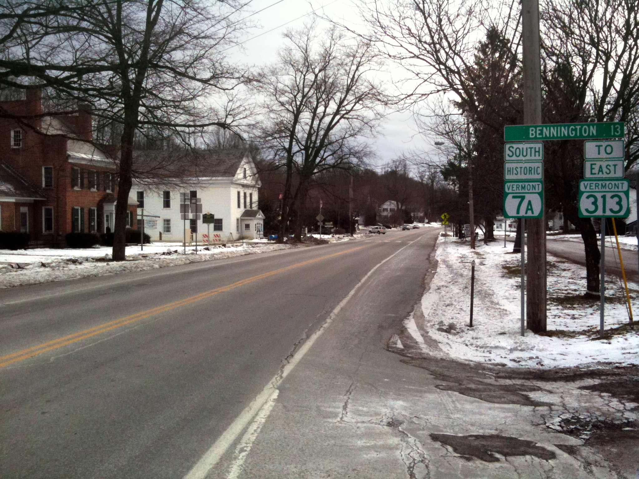 Looking south along Vermont Route 7a in Arlington